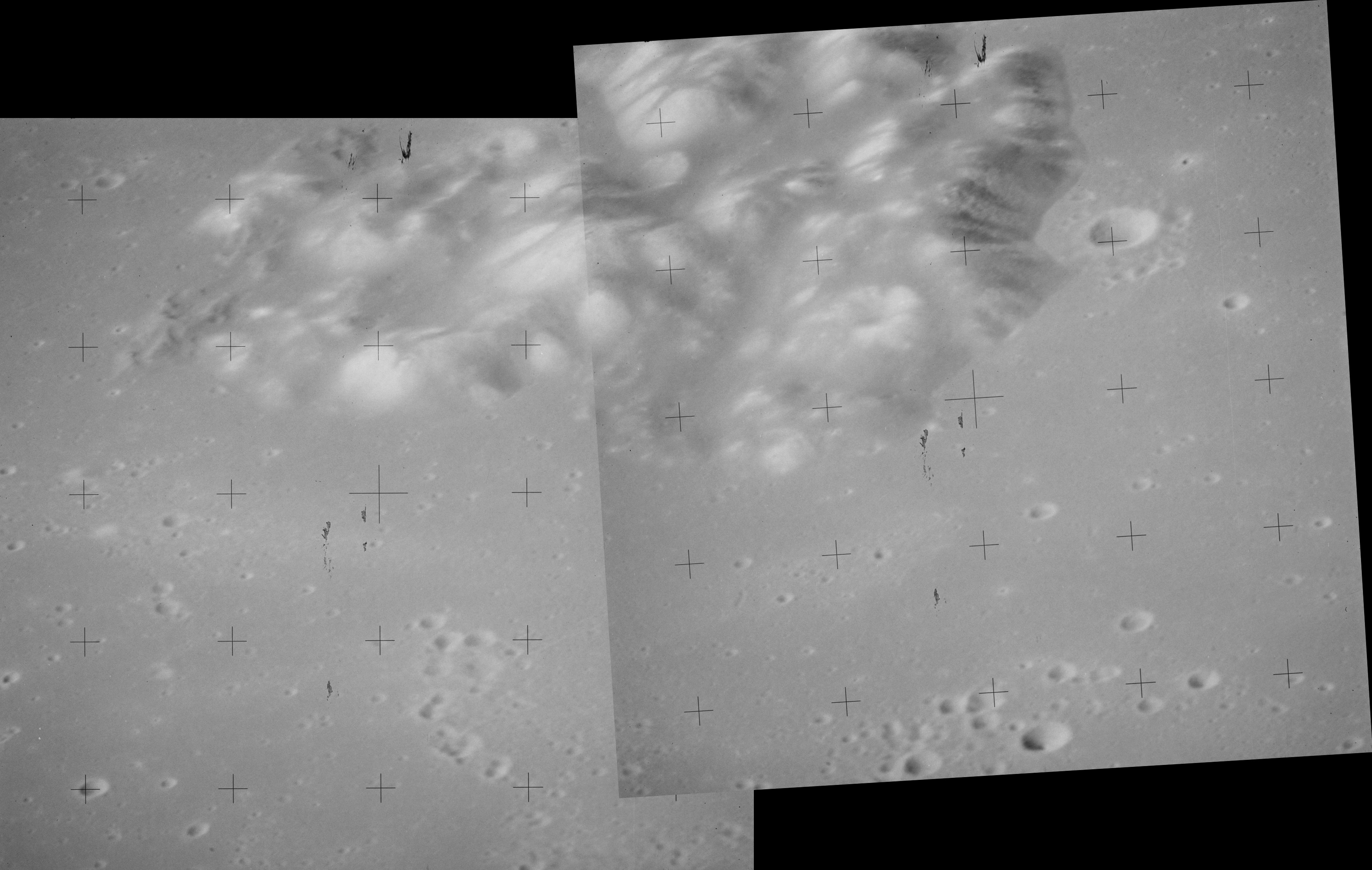 Mosaic of two images showing most of Mons Vinogradov, facing south, on the west side of Mare Imbrium, on the moon. Created from two Hasselblad images.